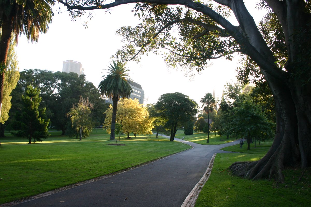 Fitzroy Gardens in late afternoon sunlight looking west towards city. Photo by Takver ( April 2005. Released under GNU FDL